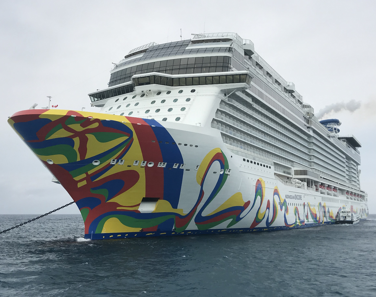 Norwegian Encore anchored off Great Stirrup Cay on February 1, 2020.